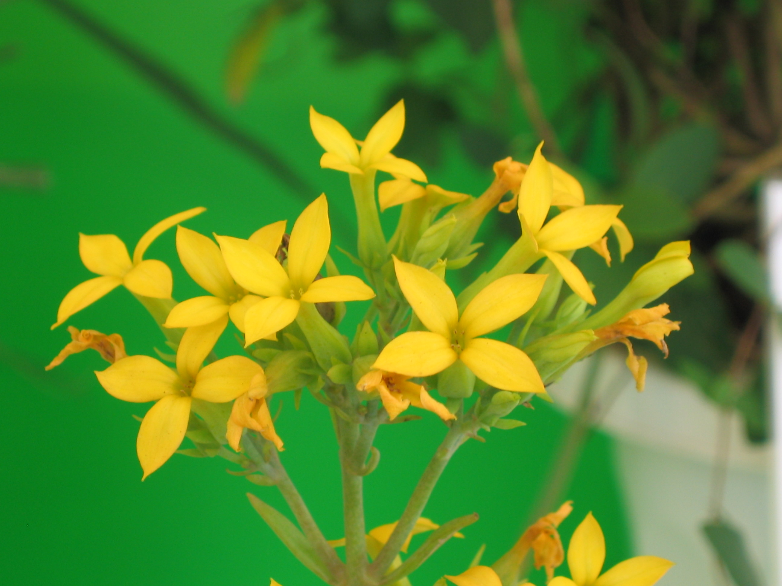 伽藍菜 Kalanchoe laciniata [香港花展 Hong Kong Flower Show]